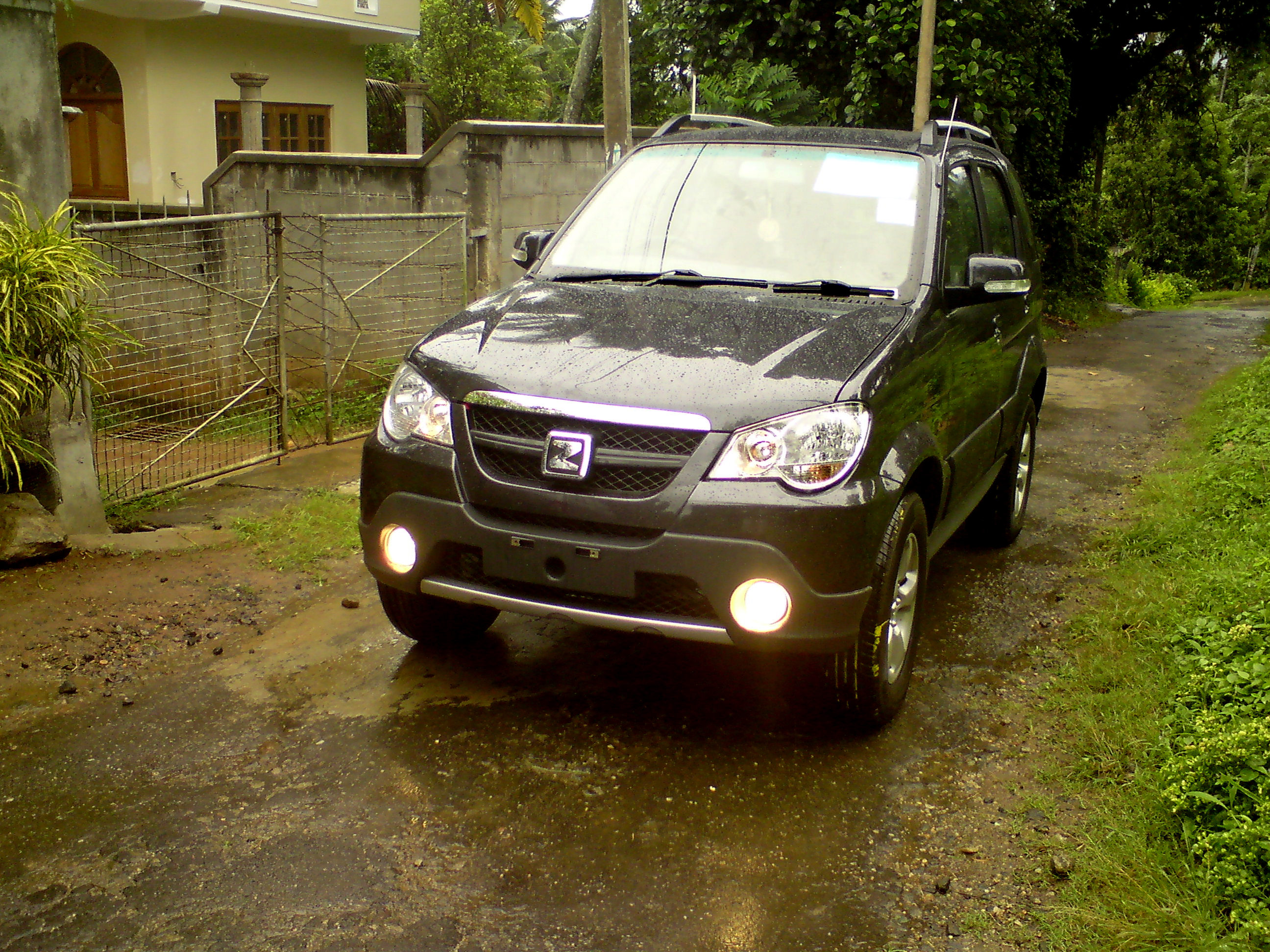 a Zotye Nomad 2 (export name for the 5008), seen in Sri Lanka